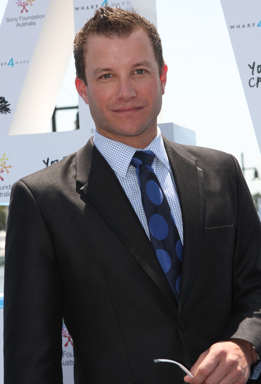 Luke Jacobz at the Sydney Stars Come Out for Sony Foundation Youth Cancer Campaign - WHARF4WARD.